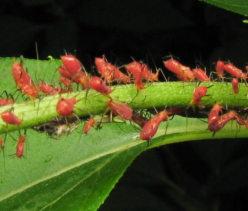 Aphids on oxeye (Heliopsis helianthoides), Uroleucon obscuricaudatum, Pennypack Restoration Trust, Montgomery County, Pennsylvania, USA. July 23, 2006.